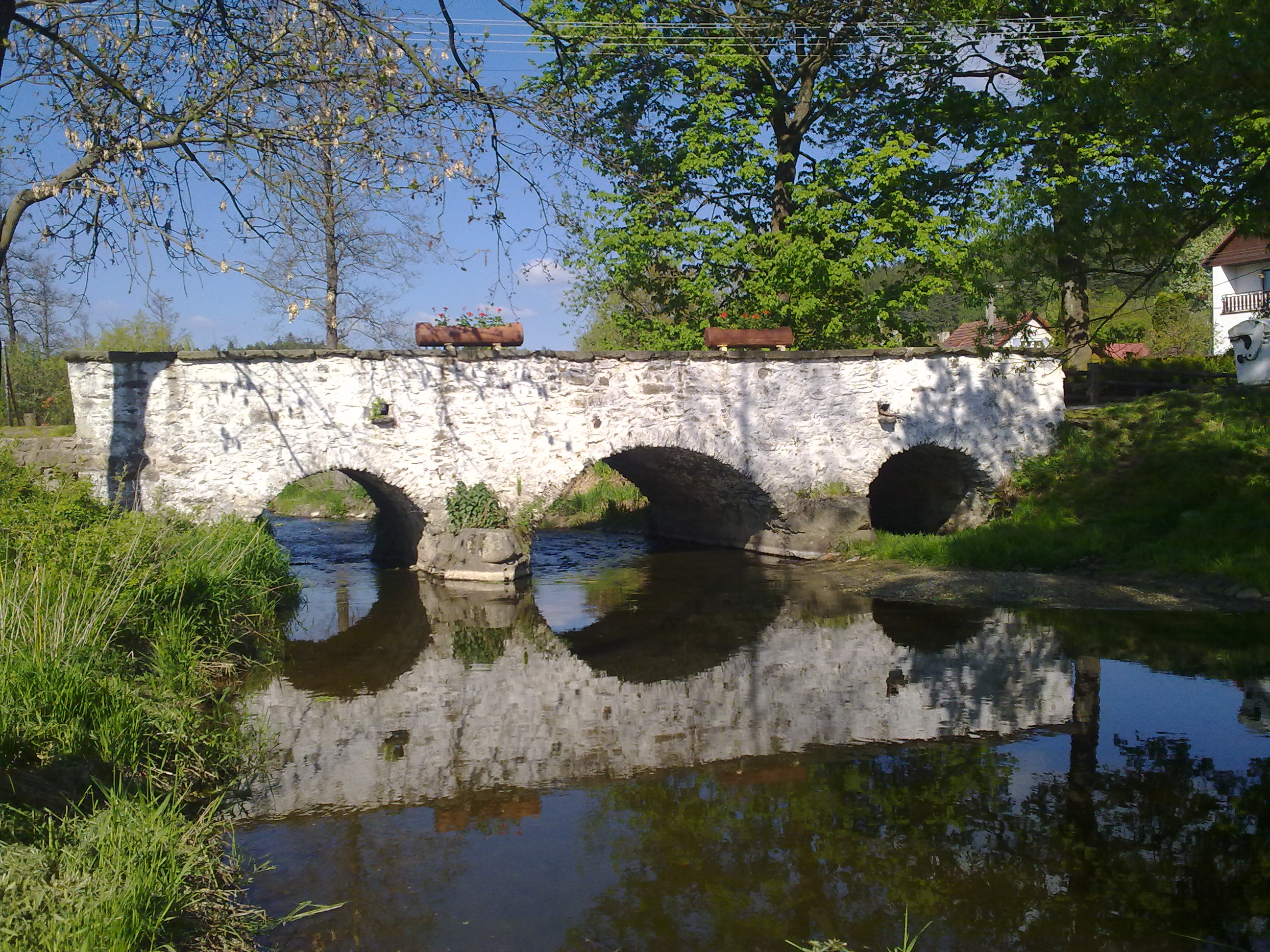 Historic brigde in Jezdovice